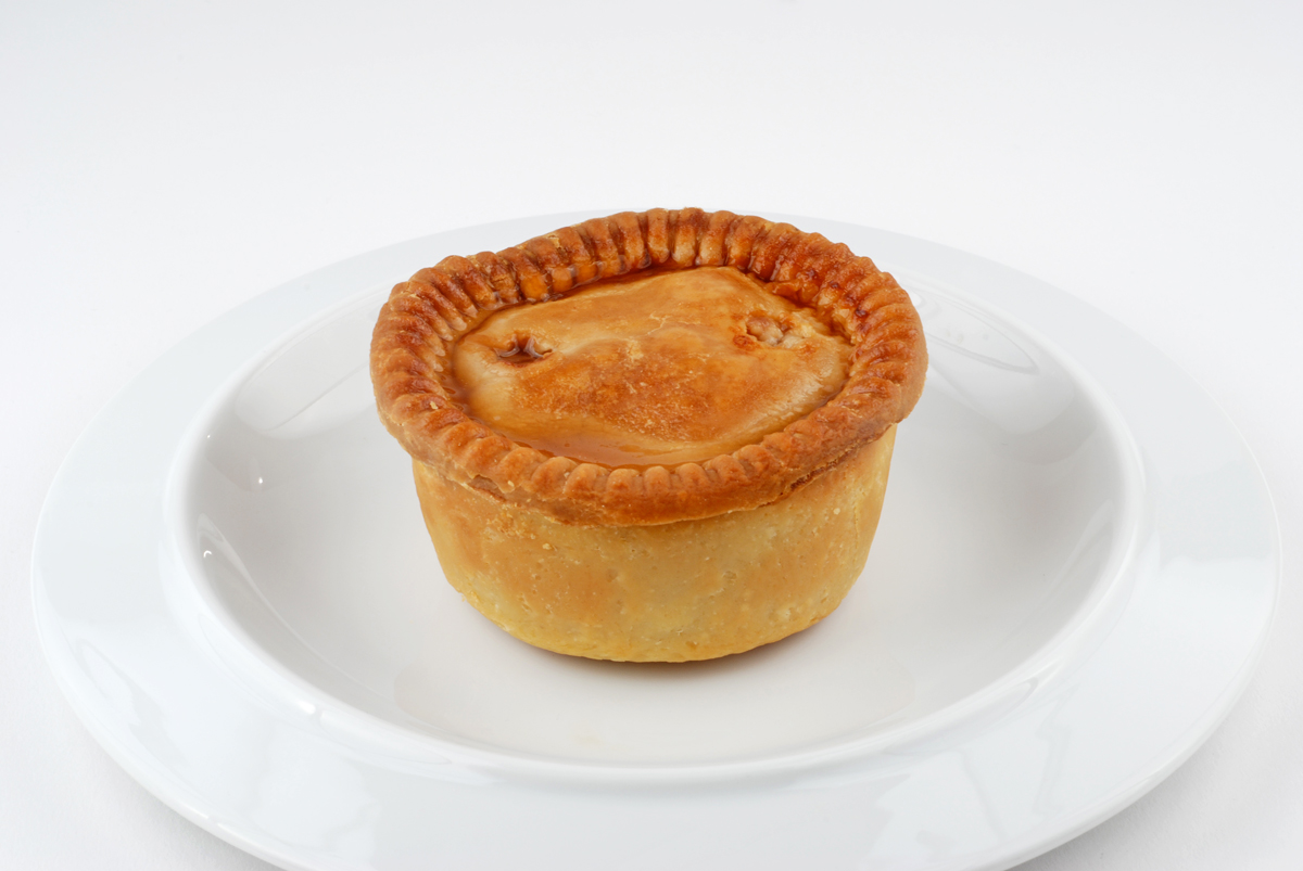 Image of a pork pie.